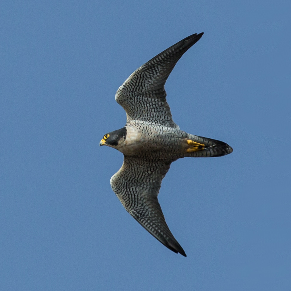 A Peregrine Falcon flying near Morro Rock, Morro Bay, California, USA.